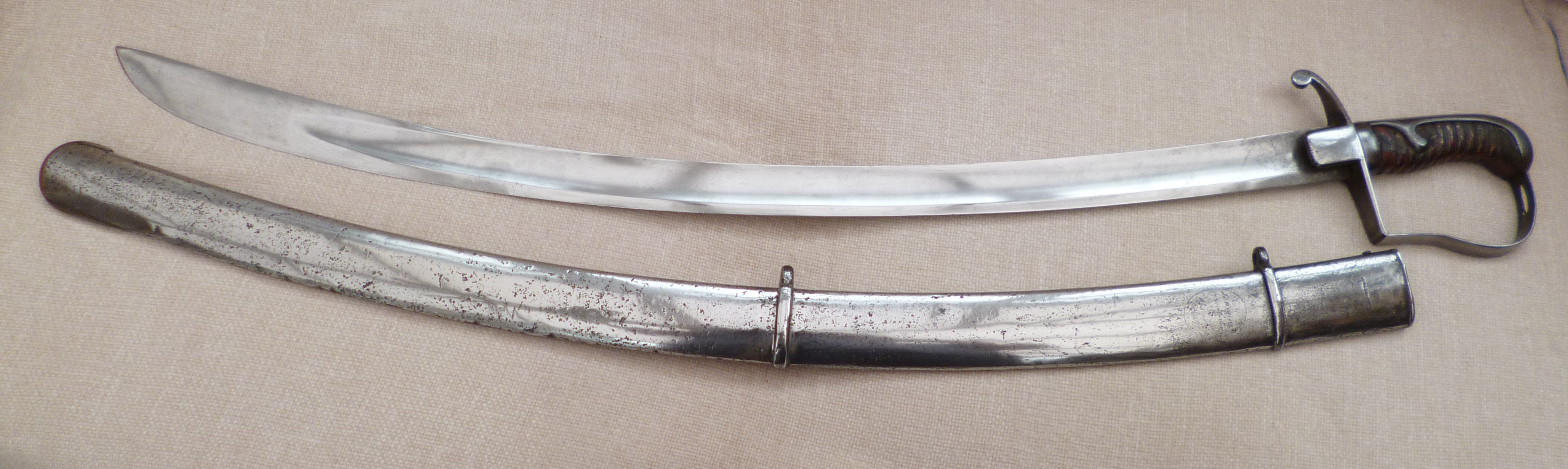 Officer's fighting sabre 1796 light cavalry pattern made by J. Johnston, Sword Cutlers of 8 Newcastle Street, The Strand, London (maker's name and address are in a cartouche on the scabbard - though the lettering is much worn). The address indicates that the sword pre-dates1806, when the cutlers moved to 12 Newcastle Street.